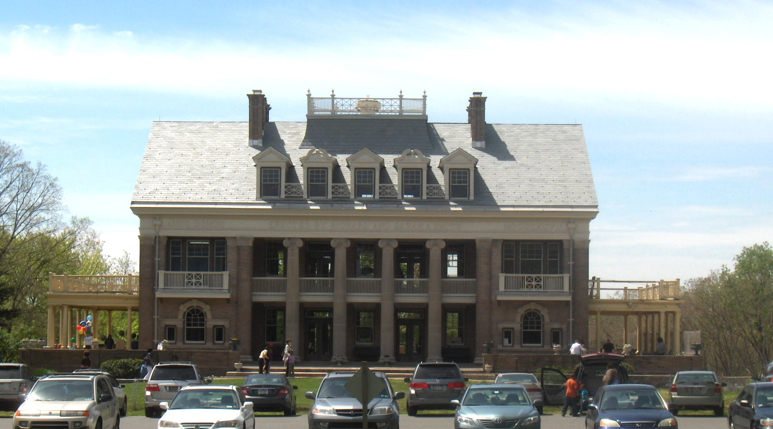 The Richard and Sarah Smith Playhouse (Ca. 1898) on Reservoir Drive, 0.4 mile west of 33rd Street and Oxford Street, Philadelphia, PA 19121. Architect, James H. Windrim. North side.